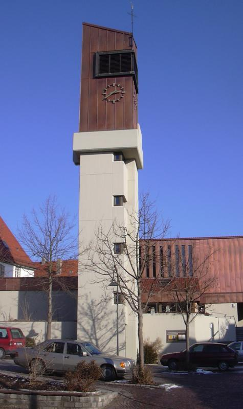 Church in Holzmaden, Germany